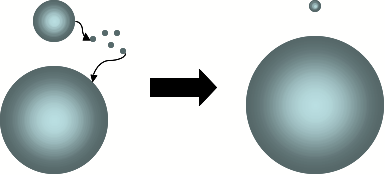 Image of Ostwald Ripening